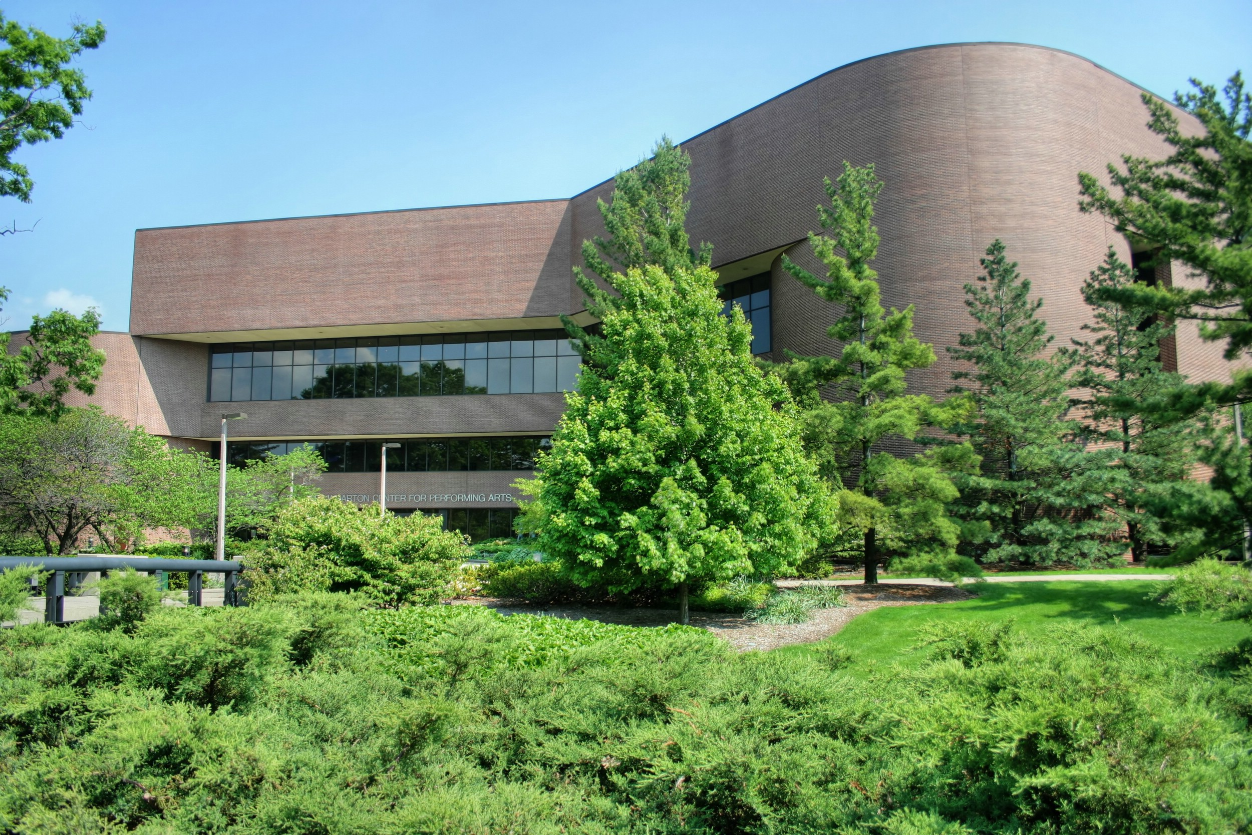 A photograph of the Wharton Center for Performing Arts on the Michigan State University campus in East Lansing, Michigan. This photograph is one of a series taken for Wikipedia by the submitter on May 28th, 2006 between the hours of 3pm and 6pm.